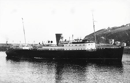 Fenella berthing at Douglas.